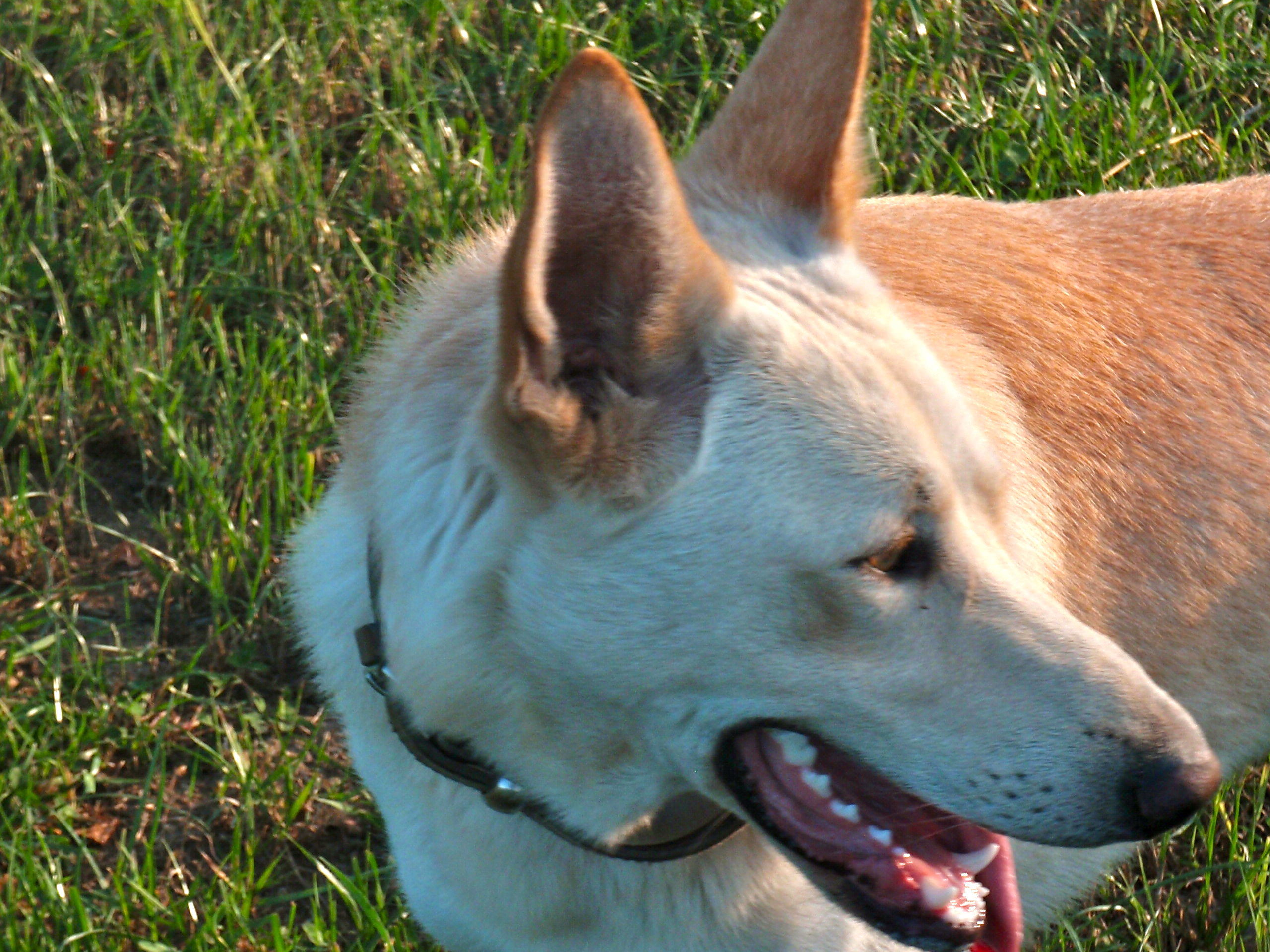 Can de Palleiro, (Celtic shepherd)